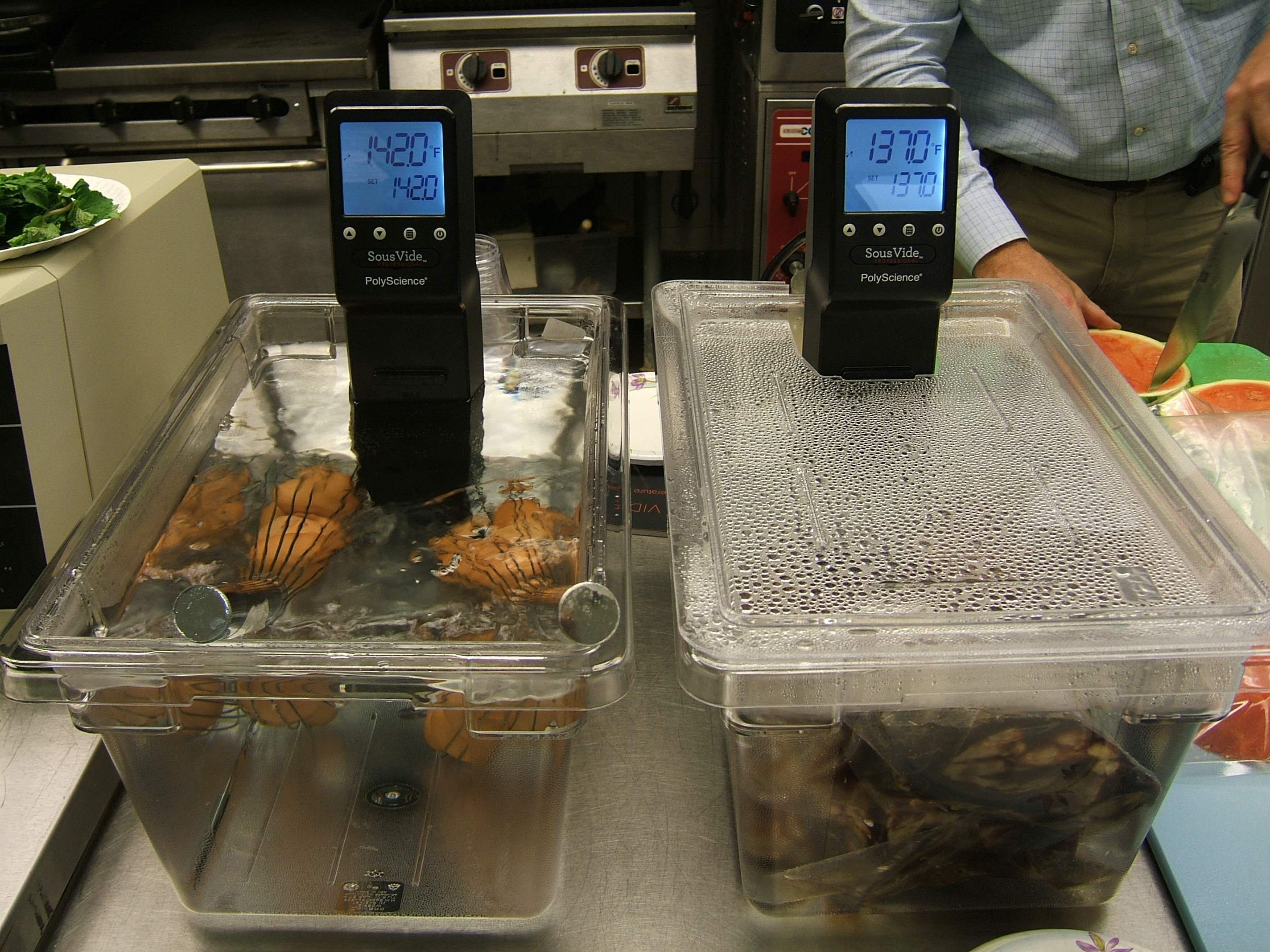 Two PolyScience Sous Vide Immersion Circulators cooking Eggs on the left and meat inside vacuum bags on the right